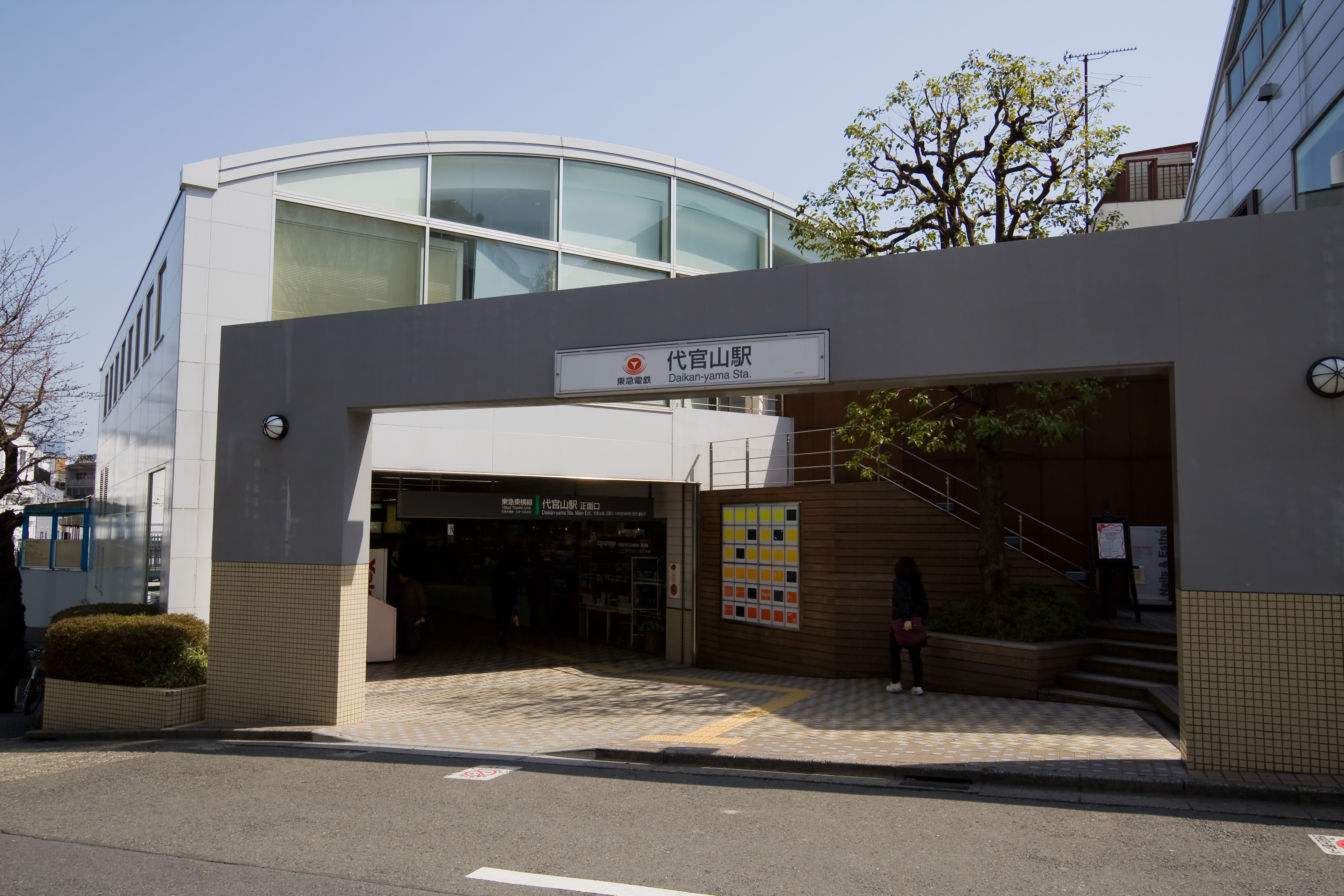 Daikan-yama Station